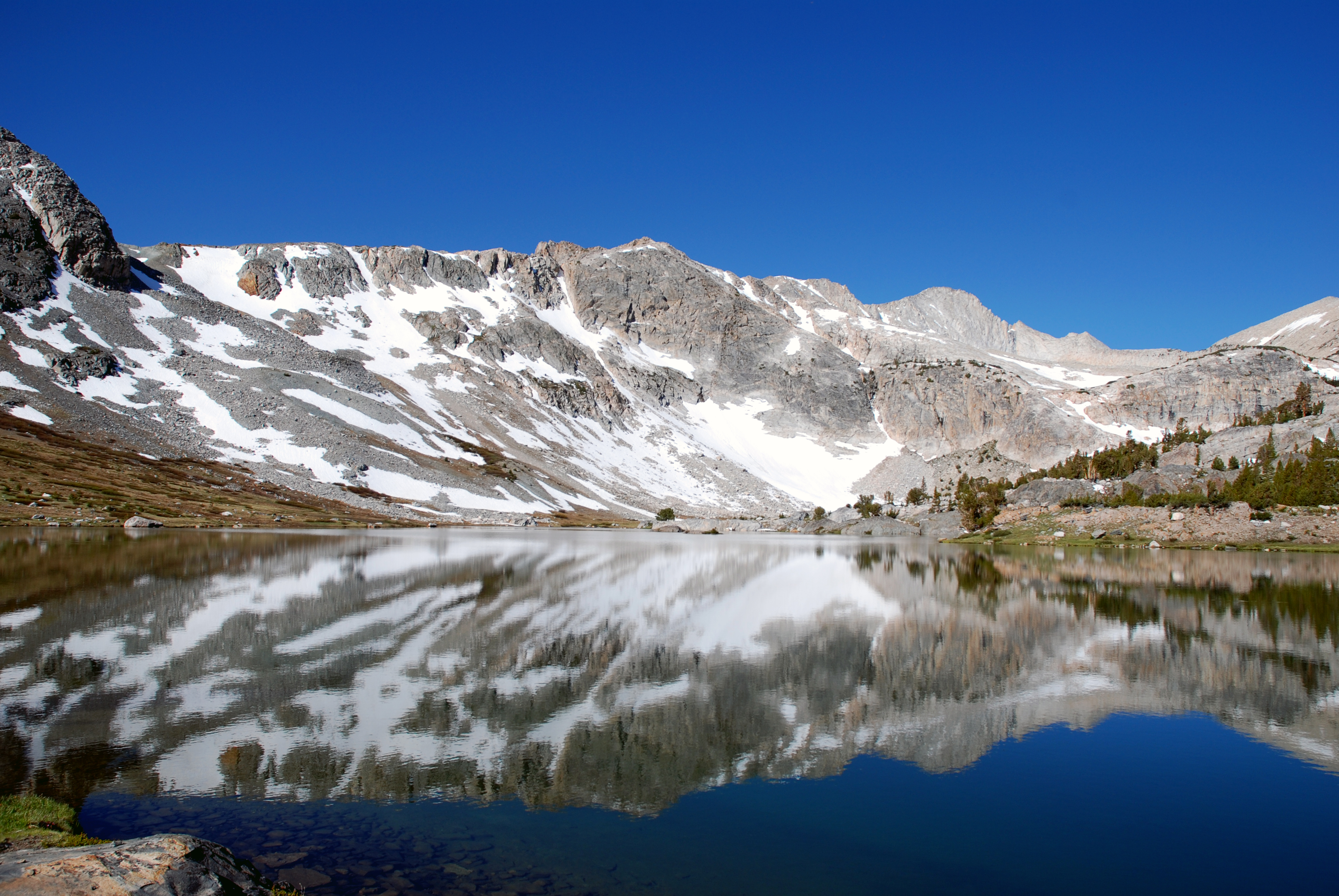 Greenstone Lake in 20 Lakes basin — Hoover Wilderness, the Sierra Nevada, Mono County, California.